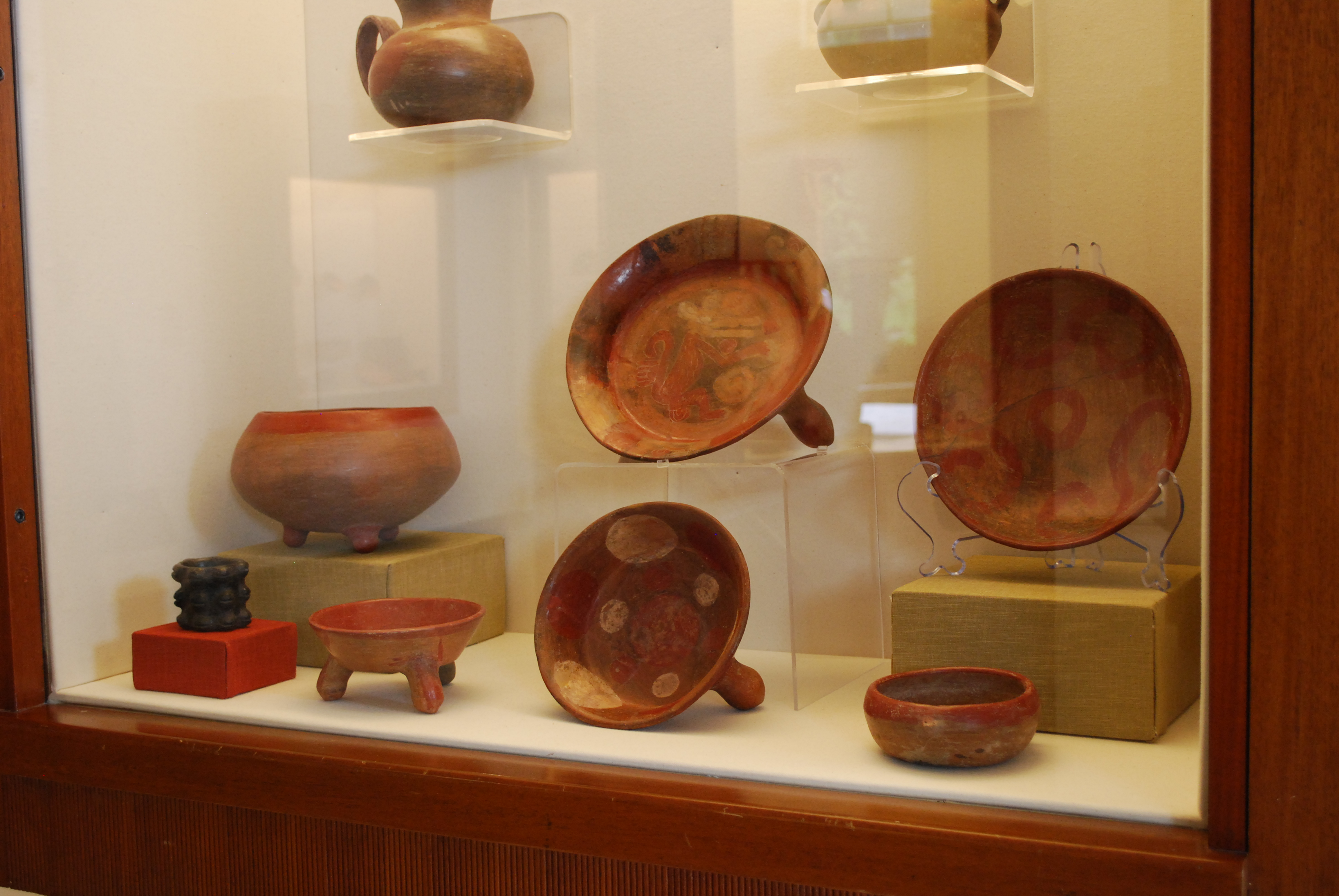 Ceramic artifacts on display at the Cholula site museum in Puebla, Mexico